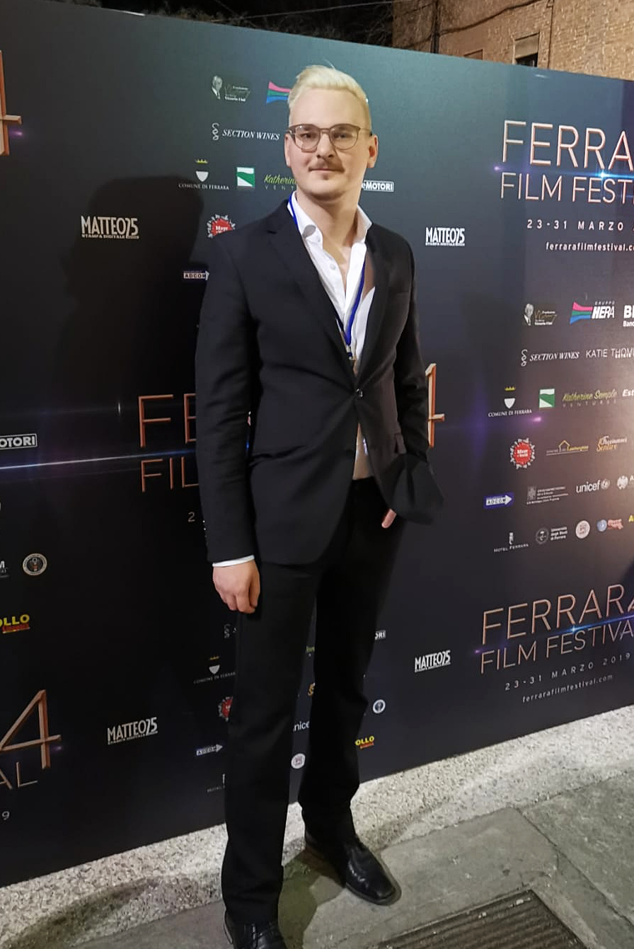 Director Felix Maxim Eller at the Ferrara Film Festival 2019